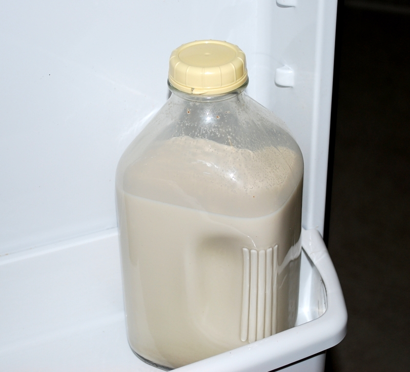 Raw Almond Milk